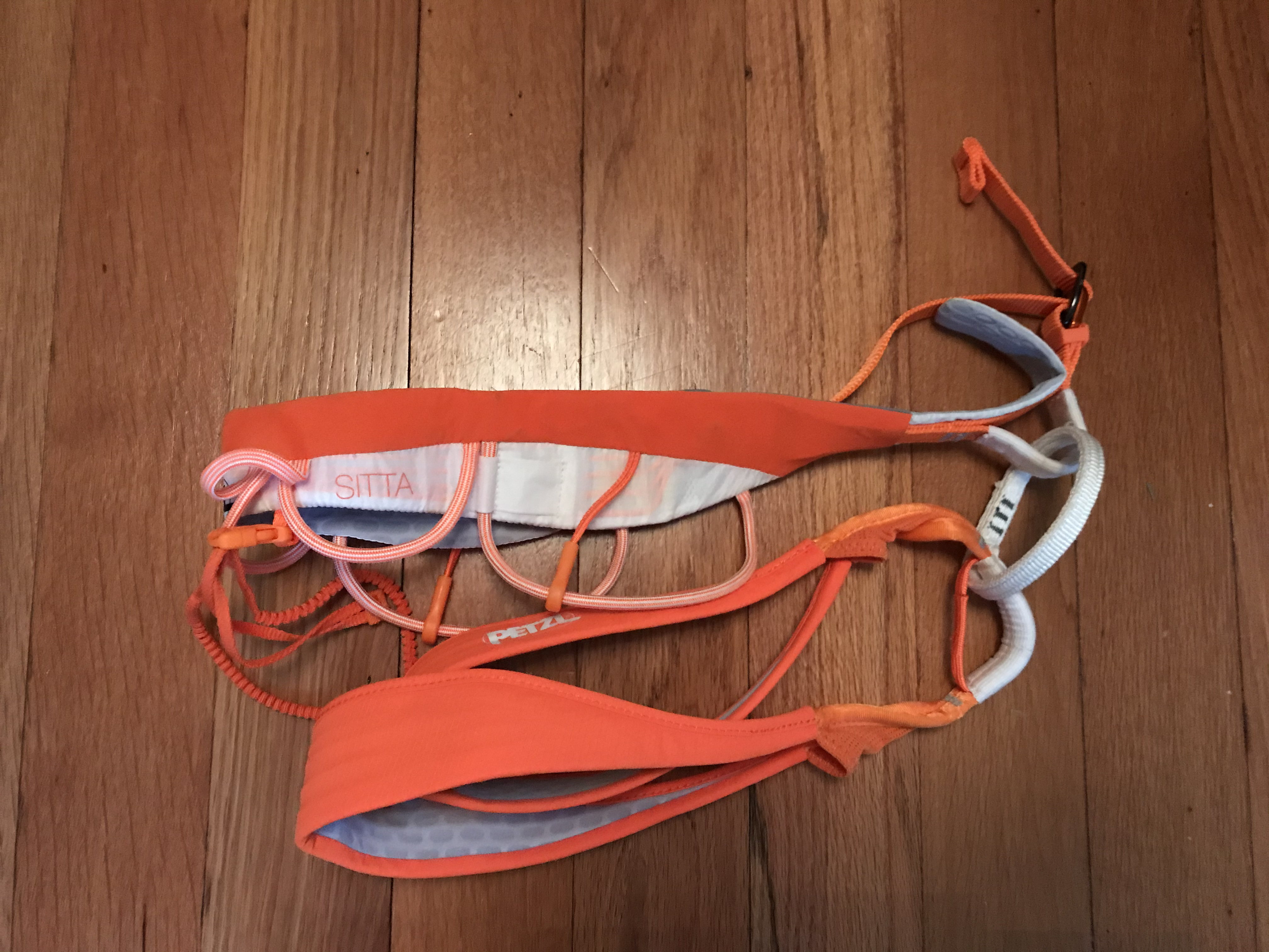 Petzl